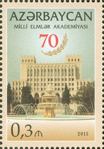 N 1228 - 30 qapik -The 70th Anniversary of the Azerbaijan National Academy of Sciences.